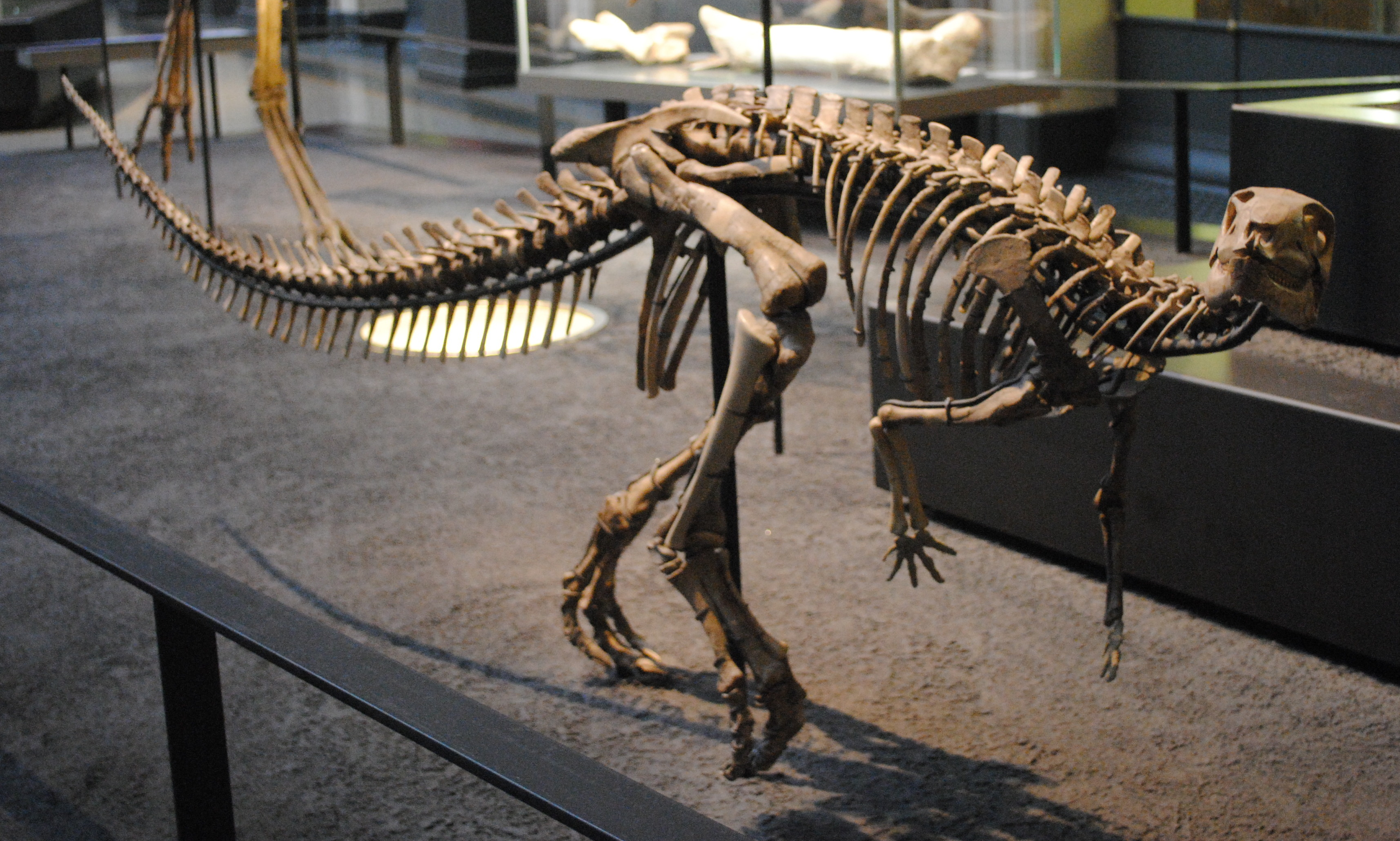 Even the small ones are huge compared to a human.